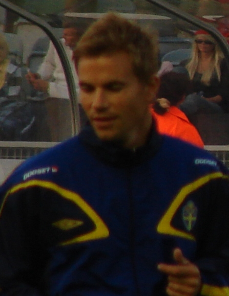 Taken at Ullevi for the match between Sweden and USA.